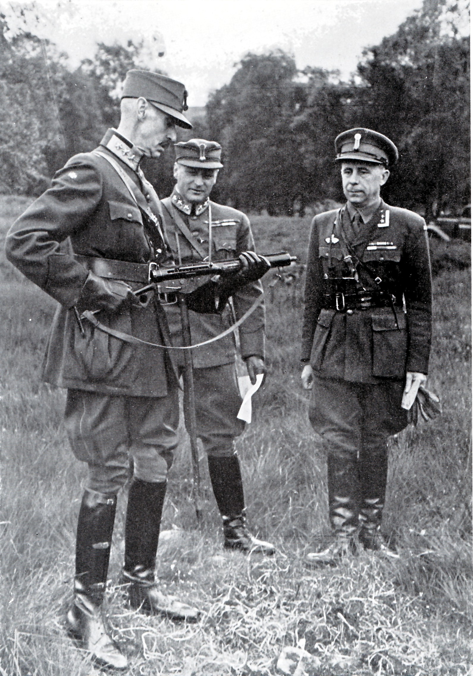 King Haakon VII and Crown Prince Olav inspecting a gun in Scotland during World War II.